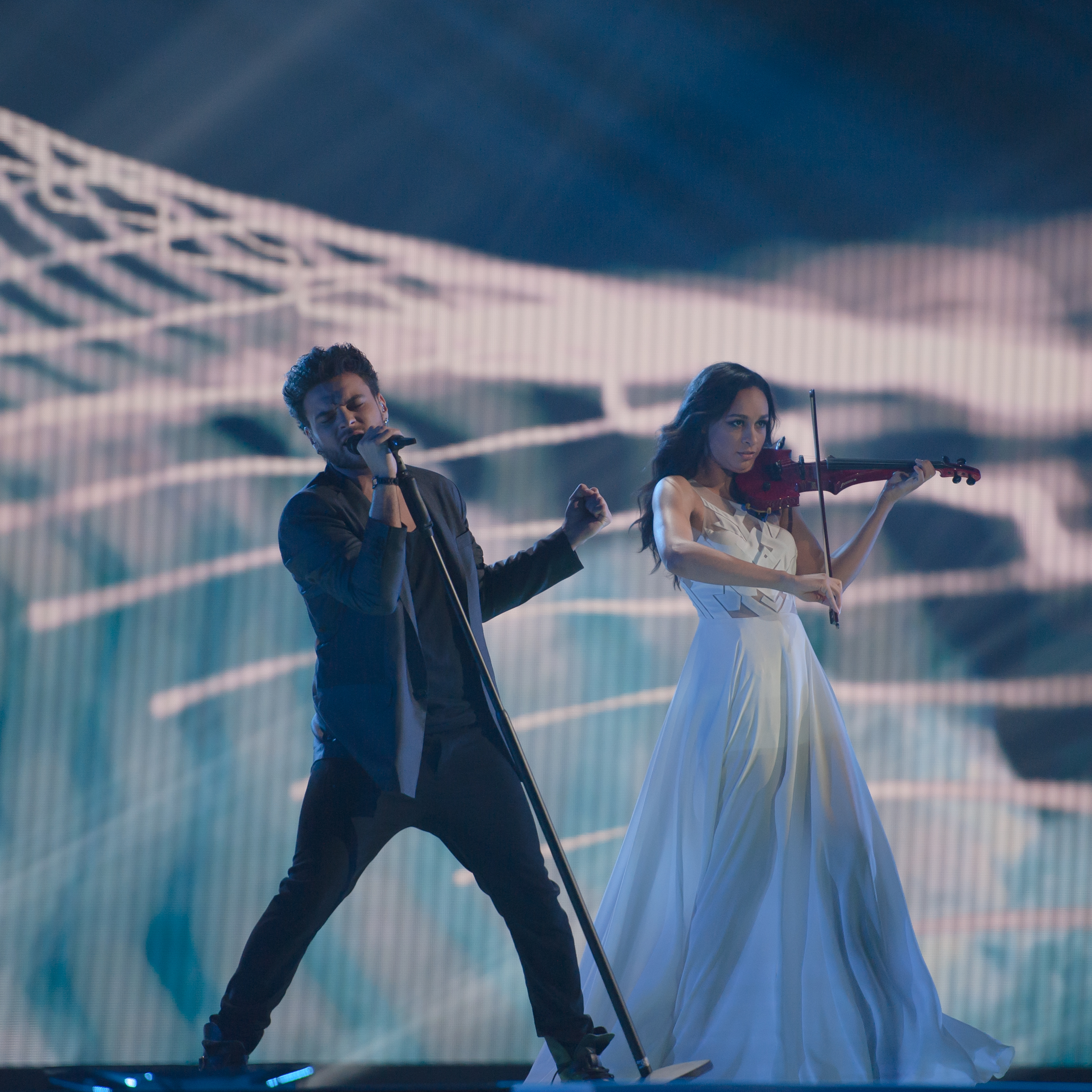 Eurovision Song Contest Vienna 2015: Uzari & Maimuna, Belarus